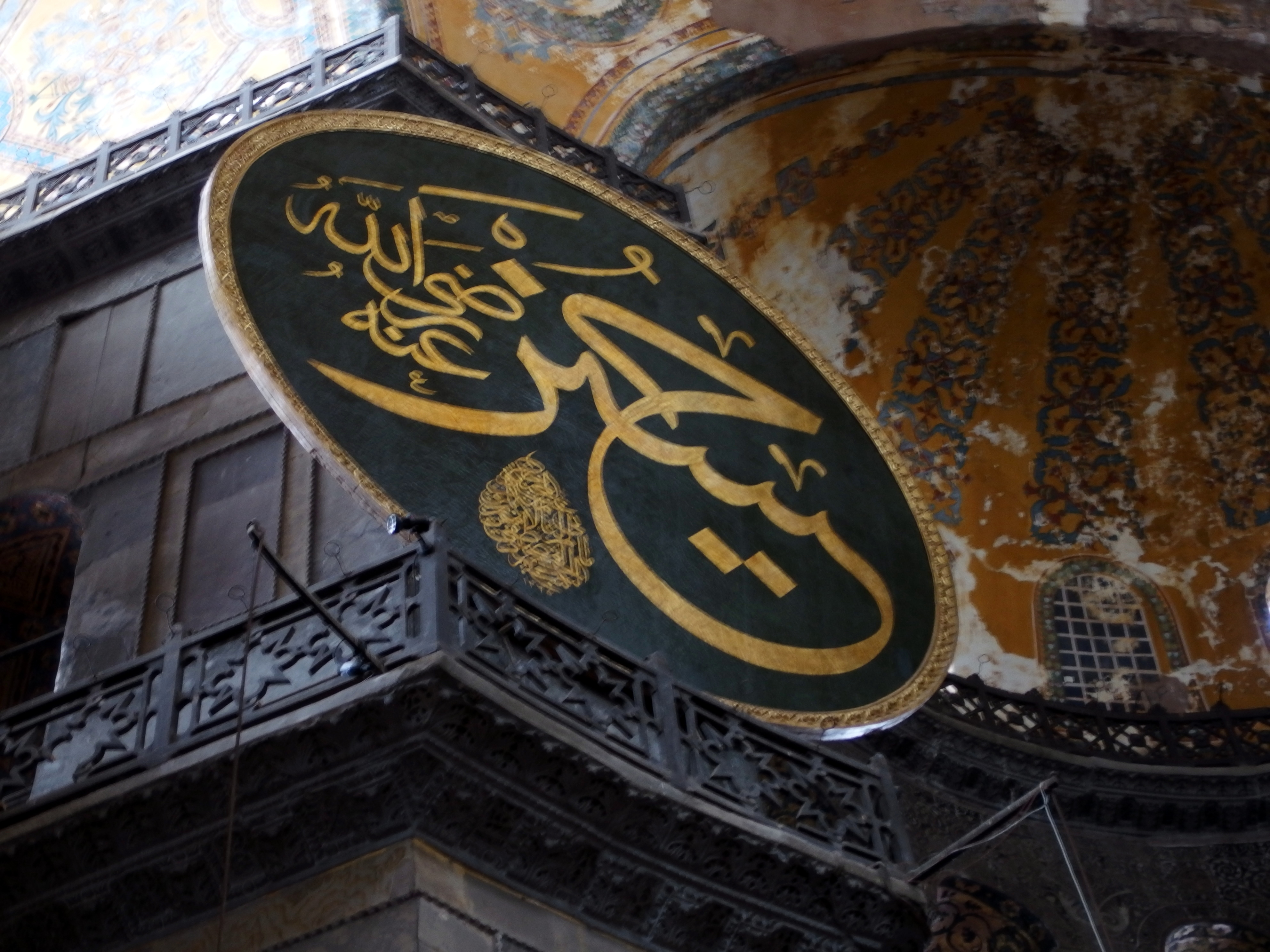 2013-12-03 in Istanbul.